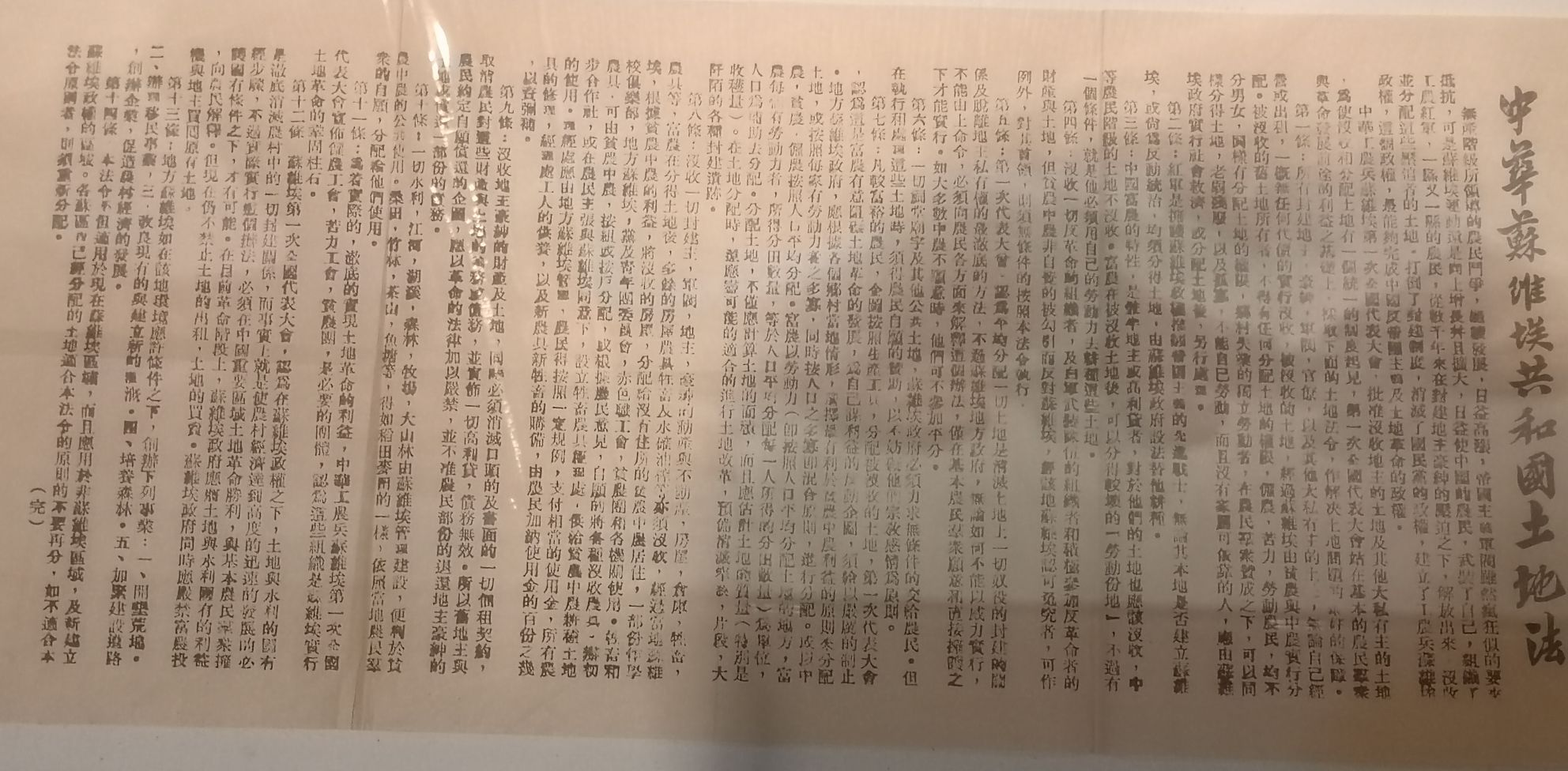 A photograph is kept of the preservation site place where The Land Law of the Chinese Soviet Republic